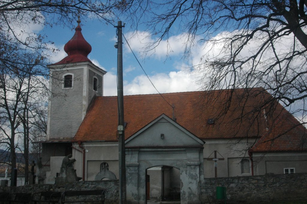 Bíňovce, St. Michael the Archangel Church